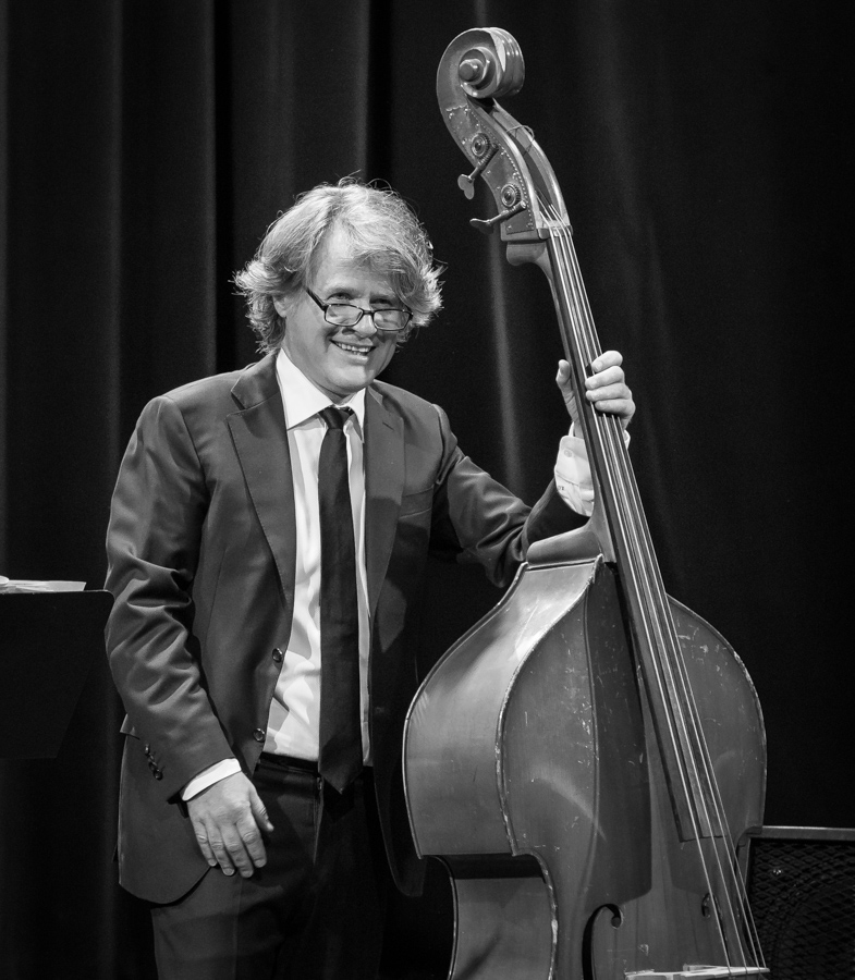 Gaute Storaas with Dagfinn Nordbø at the stage at Chat Noir. The concert was part of Oslo Jazzfestival and took place on 15. August 2017. Lineup: Dagfinn Nordbø (spoken words), Vigleik Storaas (piano) and Gaute Storaas (double bass).